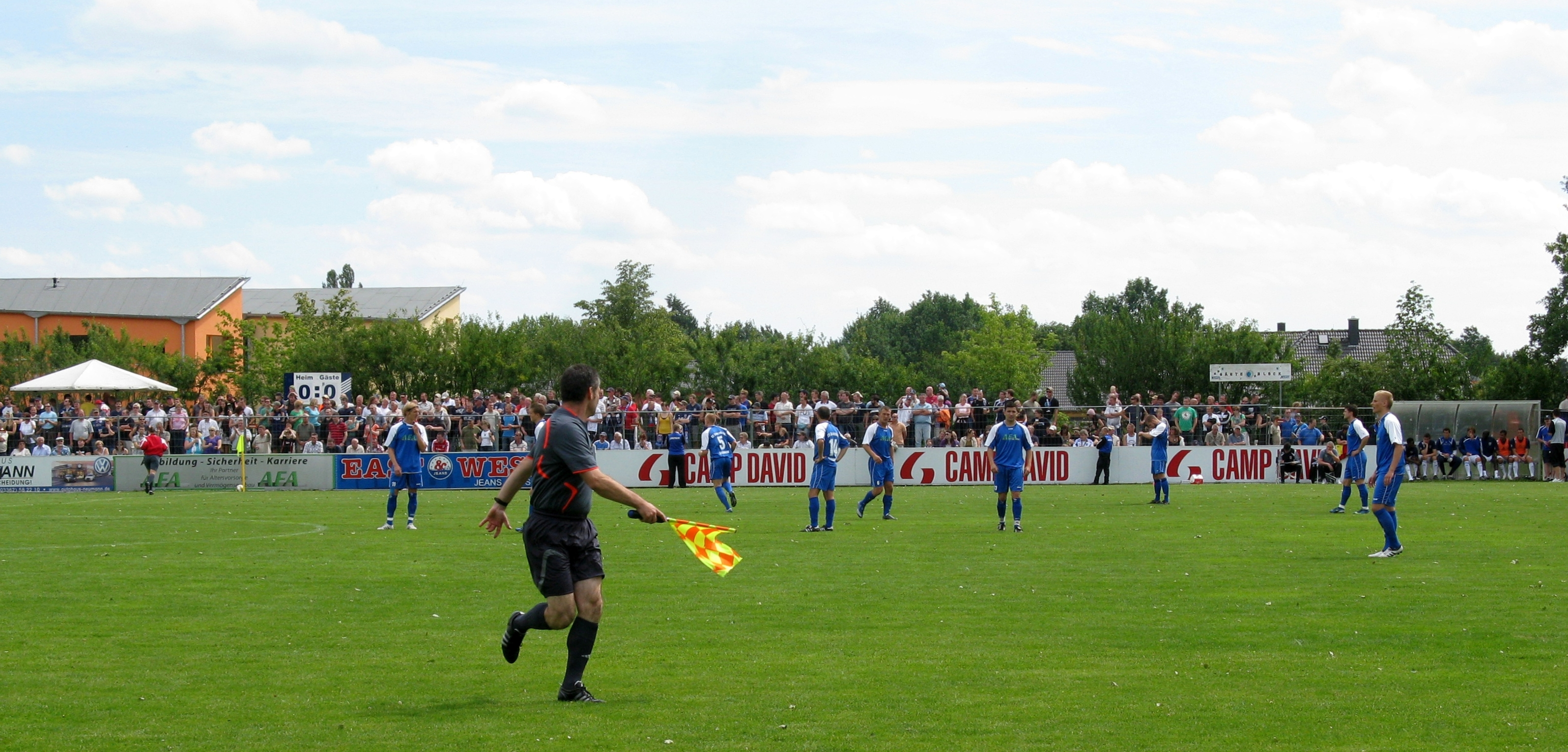 Regional Cup-final of Land Brandenburg on 14th June 2009 in Schöneiche near Berlin; Germania 90 Schöneiche - SV Babelsberg 03 (0-1); Schöneiche in Blue, Babelsberg in White